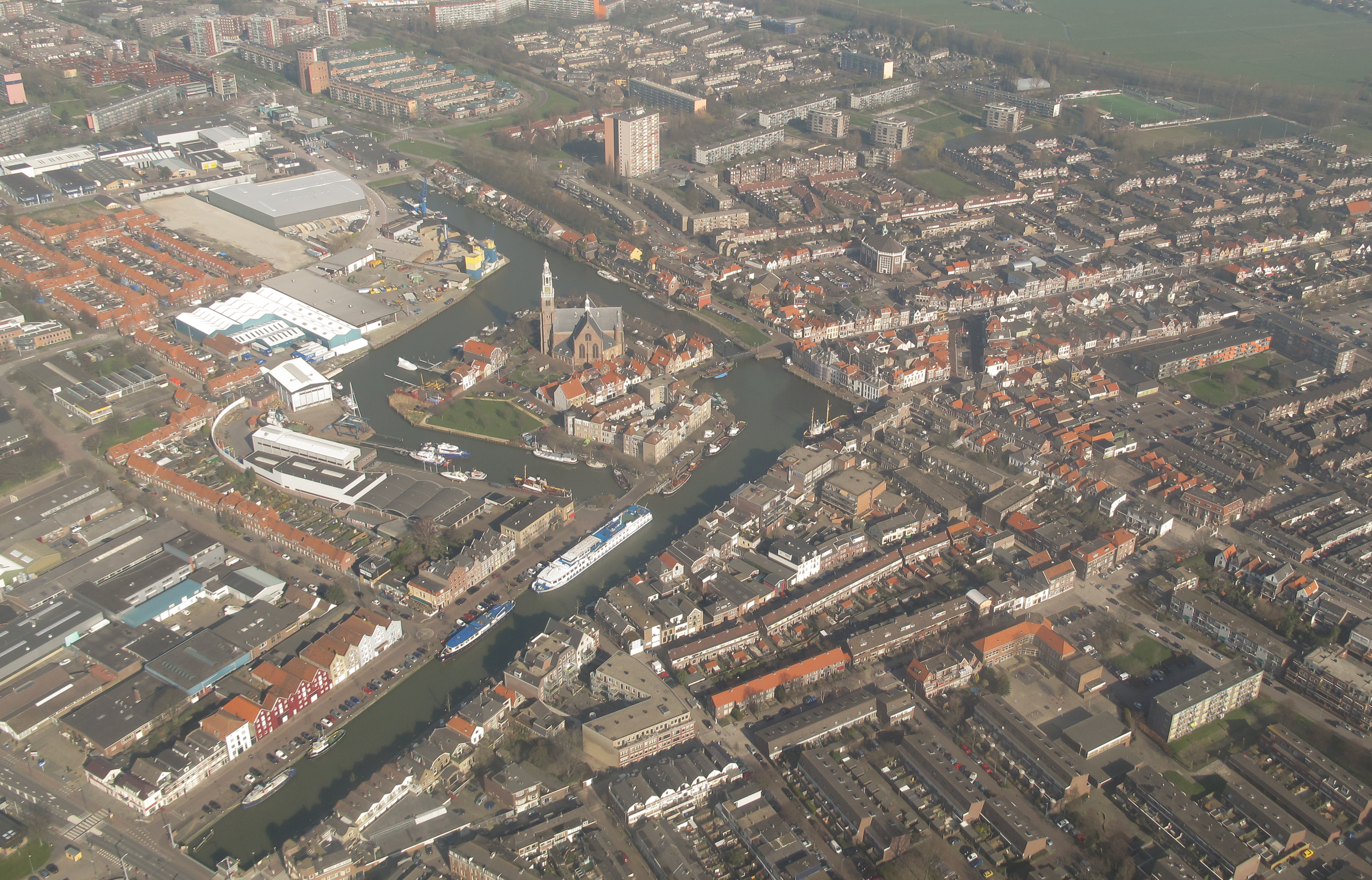 Maassluis, centre from the sky